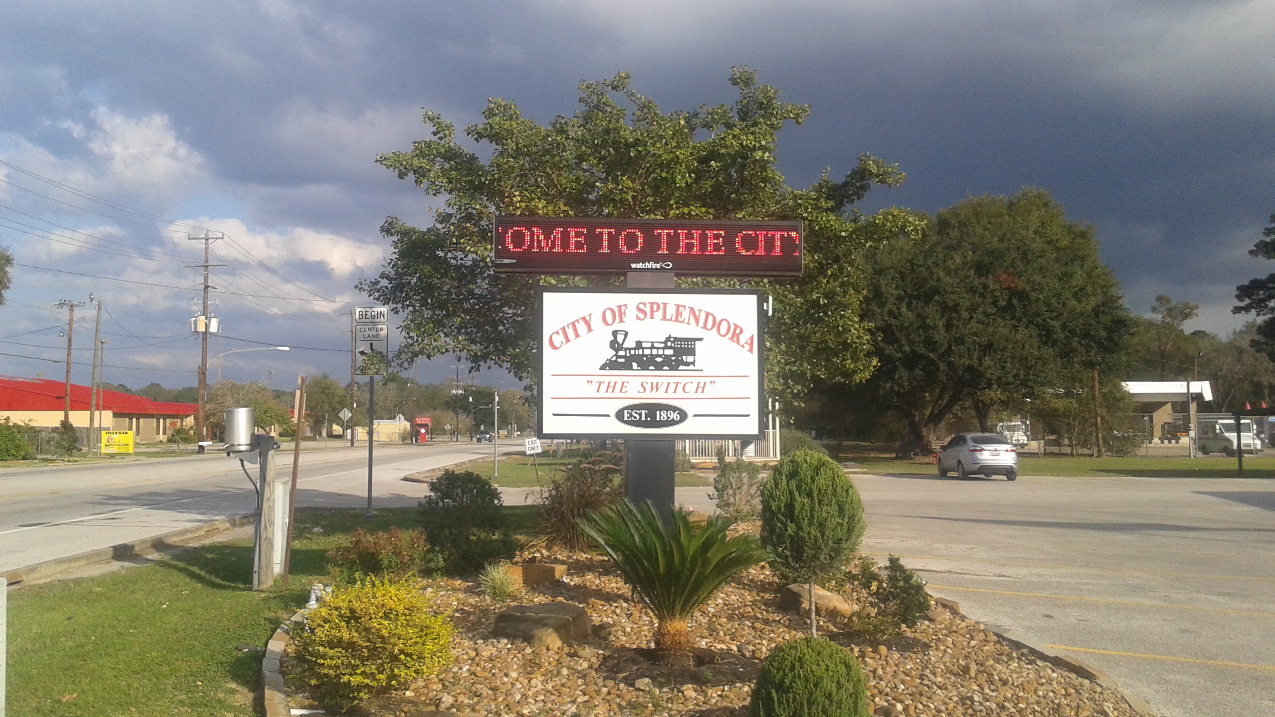 Welcome sign at the entrance to city hall in Splendora, Texas.